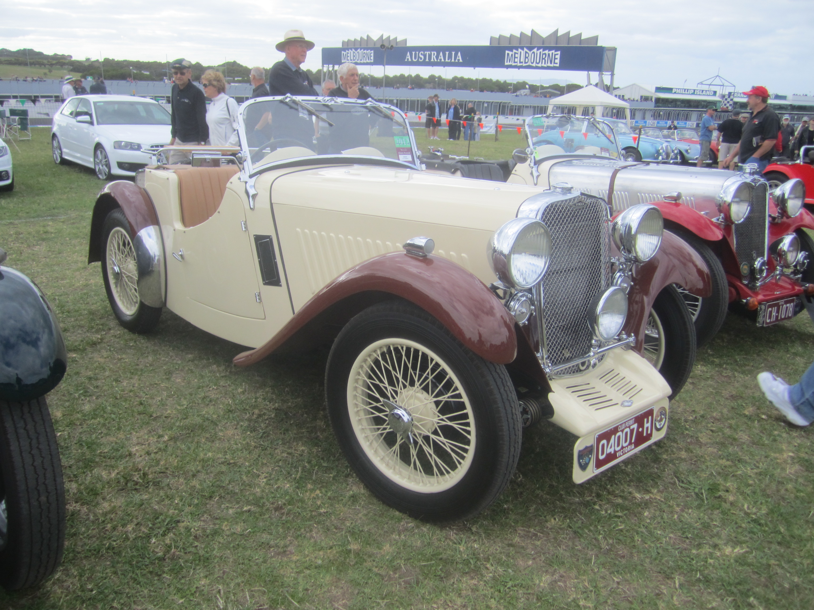 Singer Bantam Roadster. The Bantam was built from 1936-1939 and was available in 2 or 4 door and in 1937 the Tourer model was introduced. Rolling chassis were exported to Australia and New Zealand and the Flood company made Tourers and Roadsters. Engine; 1074cc 4 cyl This photo was taken on March 11, 2012 in Summerland, Victoria, AU, using a Canon IXUS 130.